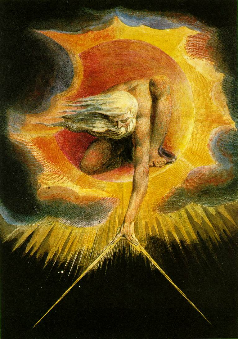 Etching / Watercolour Size: 23.3 x 16.8 cm (9 1/8 x 6 7/8 inch) Location: British Museum, London (THIS IS NOT a copy held by Whitworth Institute, Manchester, but sourced from the British Museum – Dmitrismirnov, talk, 11 July 2013)